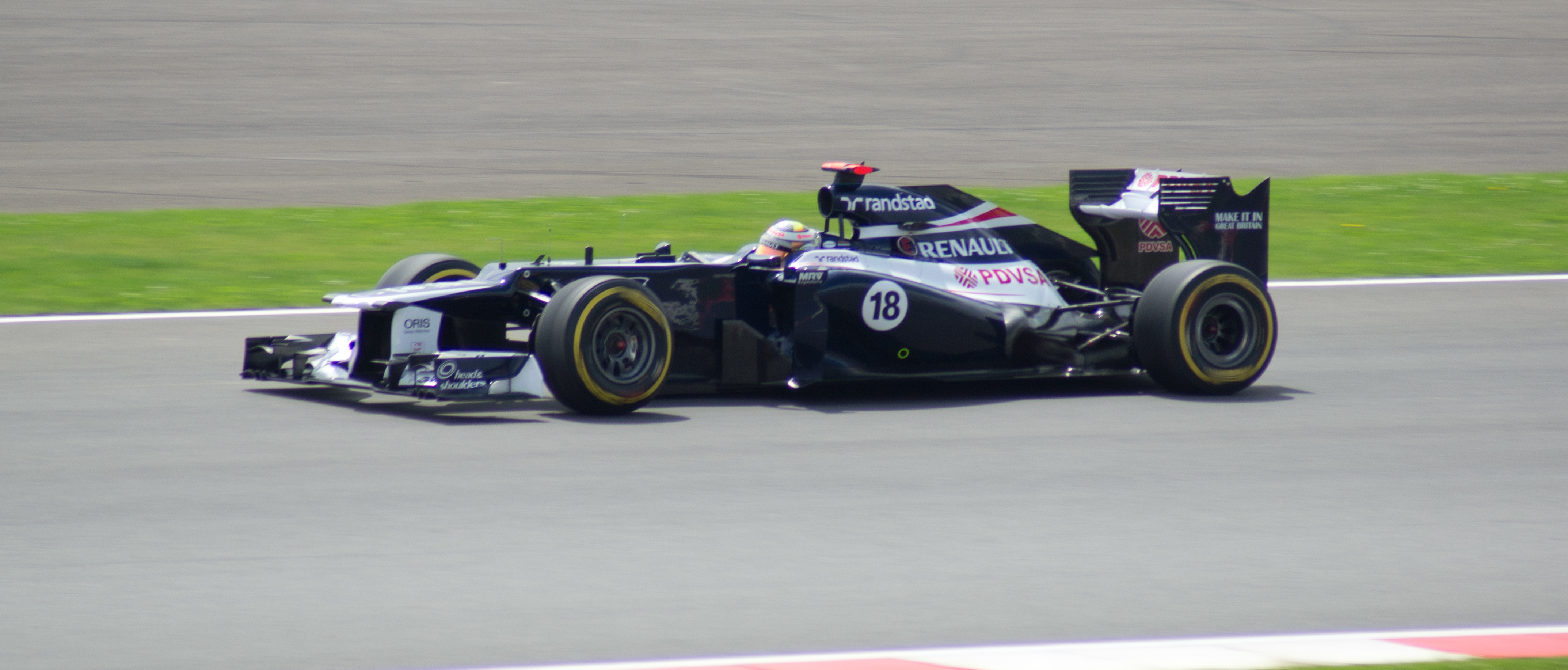 Pastor Maldonado driving the Williams FW34 during the 2012 British Grand Prix.